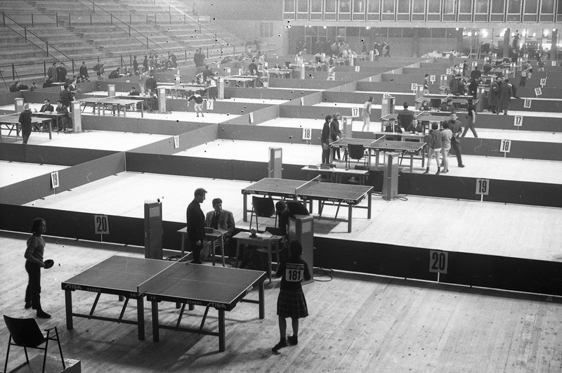 1965 World Table Tennis Championships.